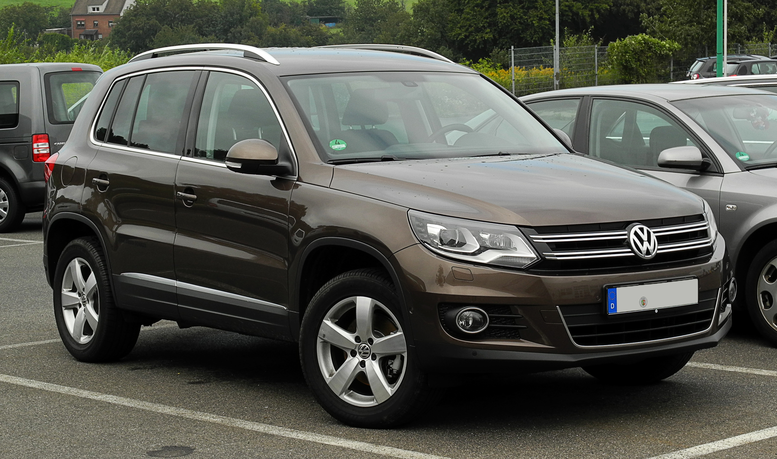 VW Tiguan Sport & Style 2.0 TDI 4MOTION BlueMotion Technology (Facelift)